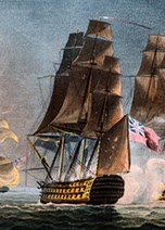 Capture of the Rivoli, by the Victorious, 22 February 1812. Taken from the Naval Chronology of Great Britain; Or, An Historical Account of Naval and Maritime Events from the Commencement of the War in 1803 to the End of the Year 1816 ... by James Ralfe.